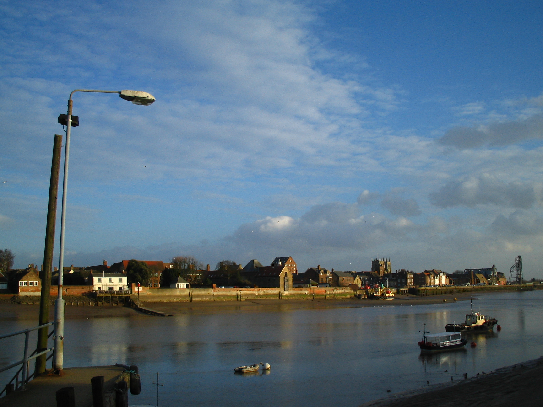 The River Great Ouse in King's Lynn The photograph was taken by myself (Ben Dickson) on February 15th 2006 with a Canon iXus i Digital Camera.